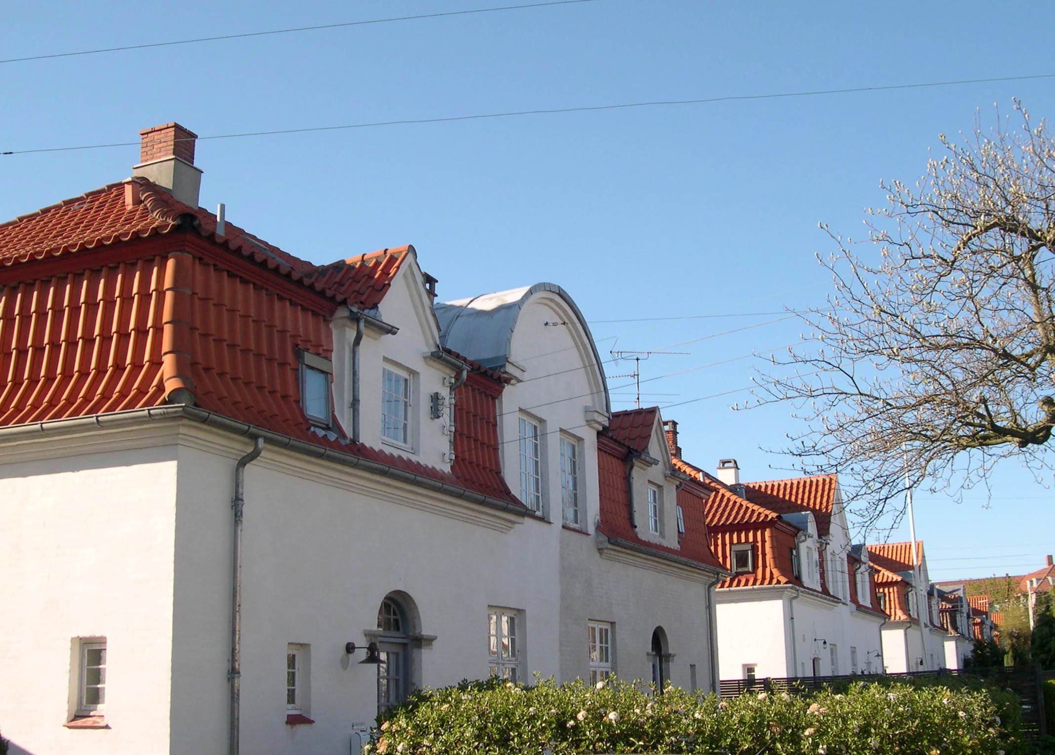 Den Hvide By (The White Town) in the Frederiksberg district of Copenhagen, Denmark. Designed by architects Godfred Tvede & Olaf Schmidth